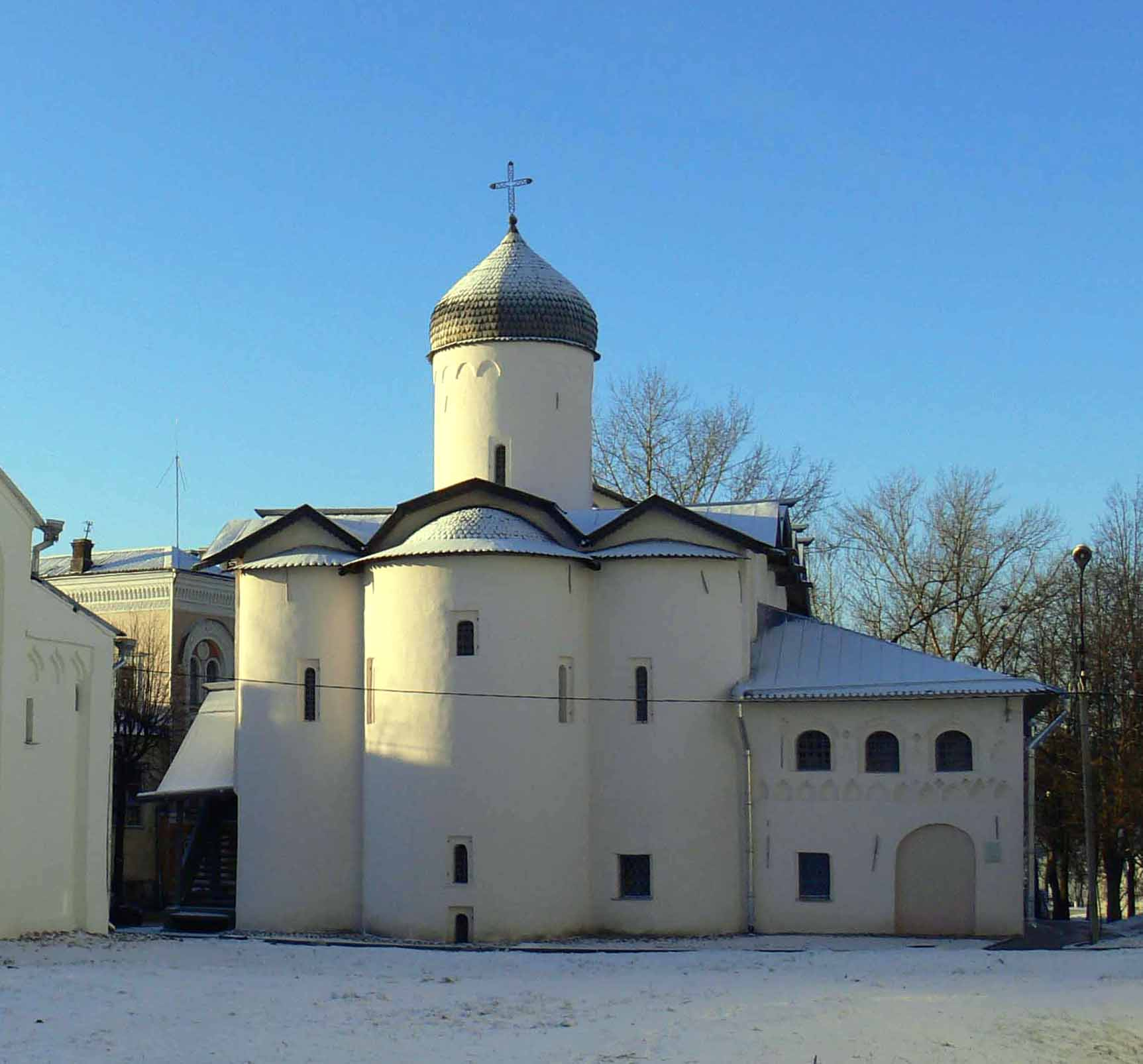 Mirinositsy churche on Yaroslav court